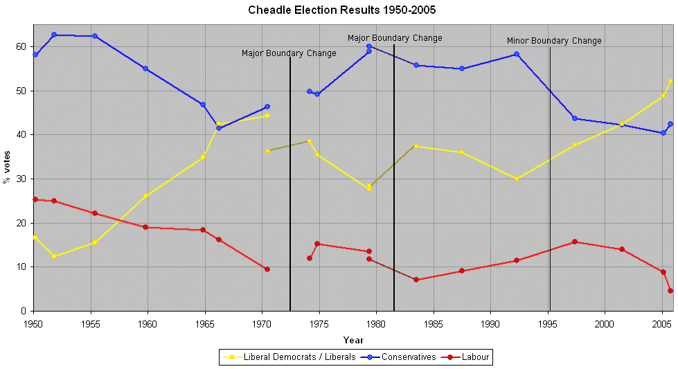 Graph showing votes in Cheadle (UK Parliament constituency) Cheadle constituency, showing boundary changes. Made by User:Dbiv David Boothroyd from an original by User:Dmn Dmn. Graph showing votes in Cheadle constituency, showing boundary changes. Made by David Boothroyd from an original by Dmn.